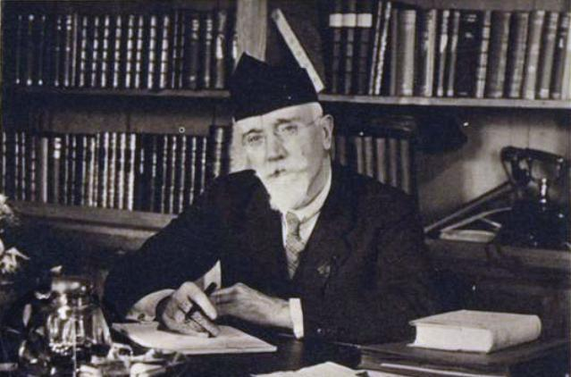 Greek Prime Minister Eleftherios Venizelos sitting at his desk in 1930.